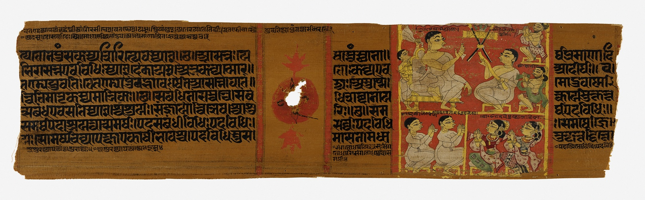 India, Gujarat, circa 1350 Books Ink and opaque watercolor on palm leaf Purchased with funds provided by the Indian Art Special Purpose Fund, Mrs. Wilbur Archer Beckett, Gerald Stockton and S. Louis Gaines, the Christian Humann Fund, Jo Ann and Julian Ganz, Jr. and Dr. and Mrs. Peter Bing (M.88.62.2) South and Southeast Asian Art